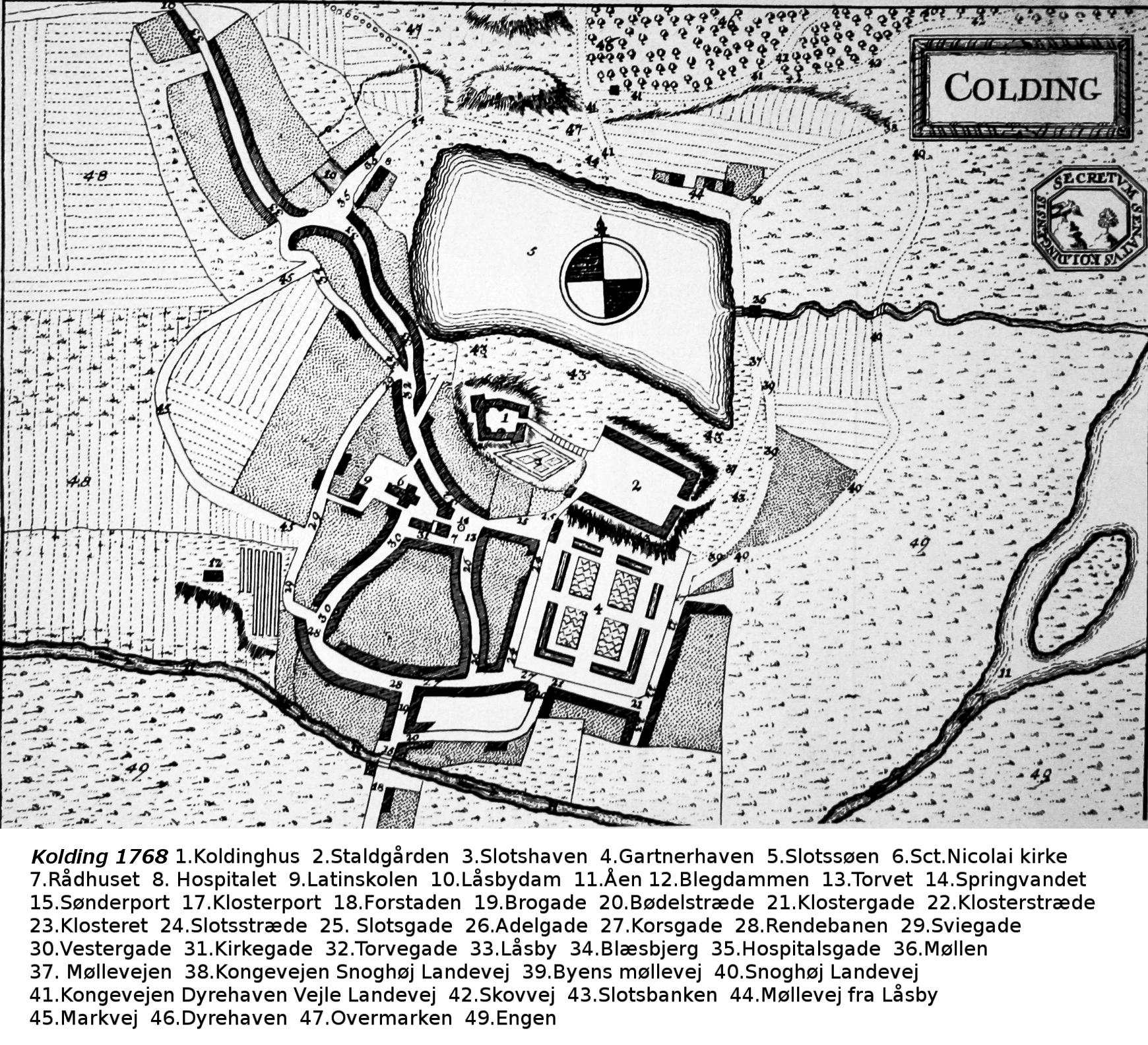 Old map of Kolding from 1768, Denmark. H. G. Sonnin: Kort over Kolding, by J. Kaas 1768 and published in Danske Atlas by Hans de Hofman and Jacob Langebek.